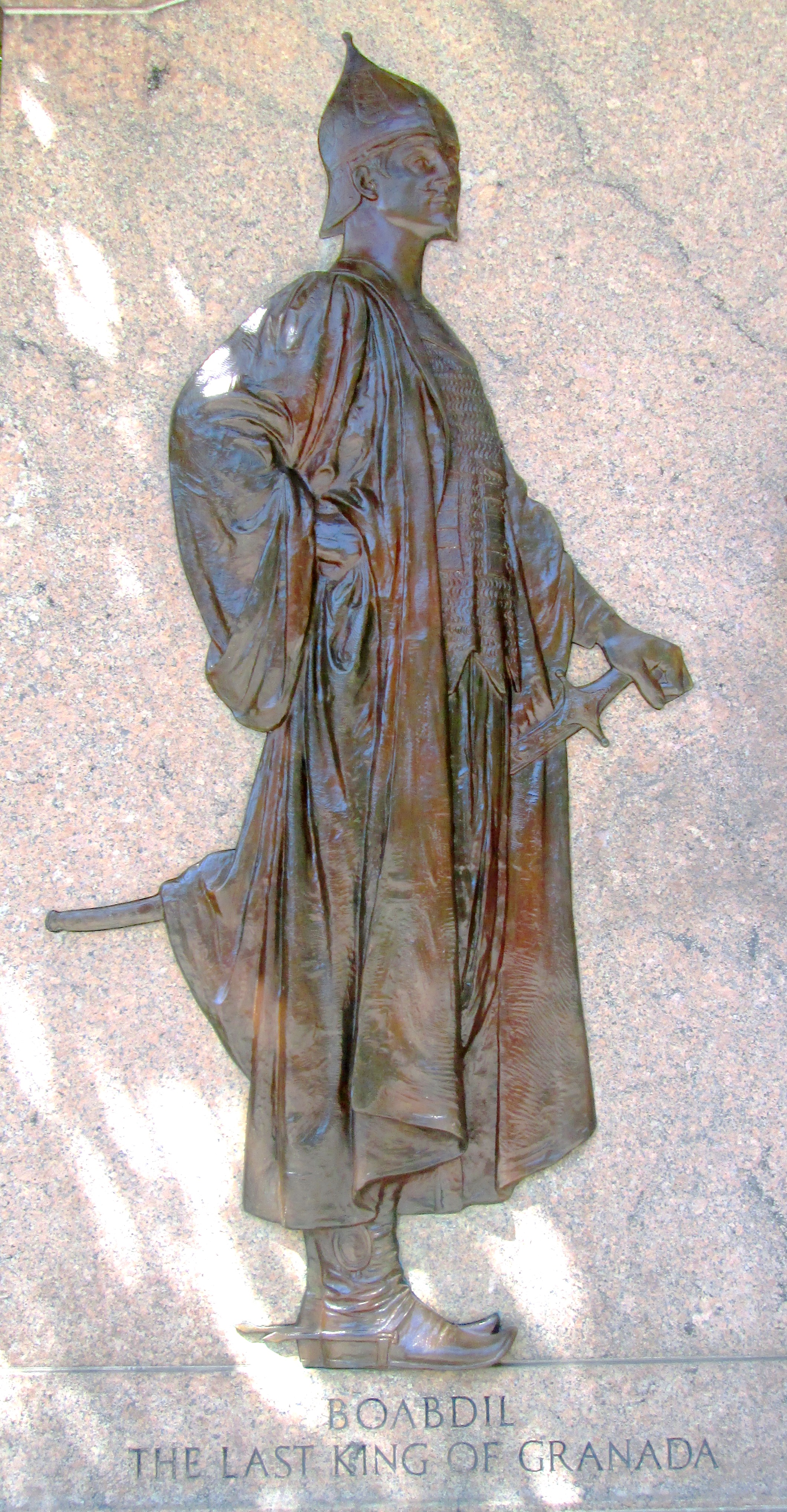 The Washington Irving Memorial at Broadway (US 9) and West Sunnyside Lane in Irvington, New York is listed on the National Register of Historic Places. This is the relief image of Boabdil, The Last King of Granada, who appears in Irving's Chronicle of the Conquest of Granada